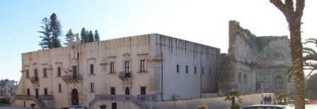 Ruderi Chiesa Madre e Palazzo Gattopardo - Santa Margherita Belice